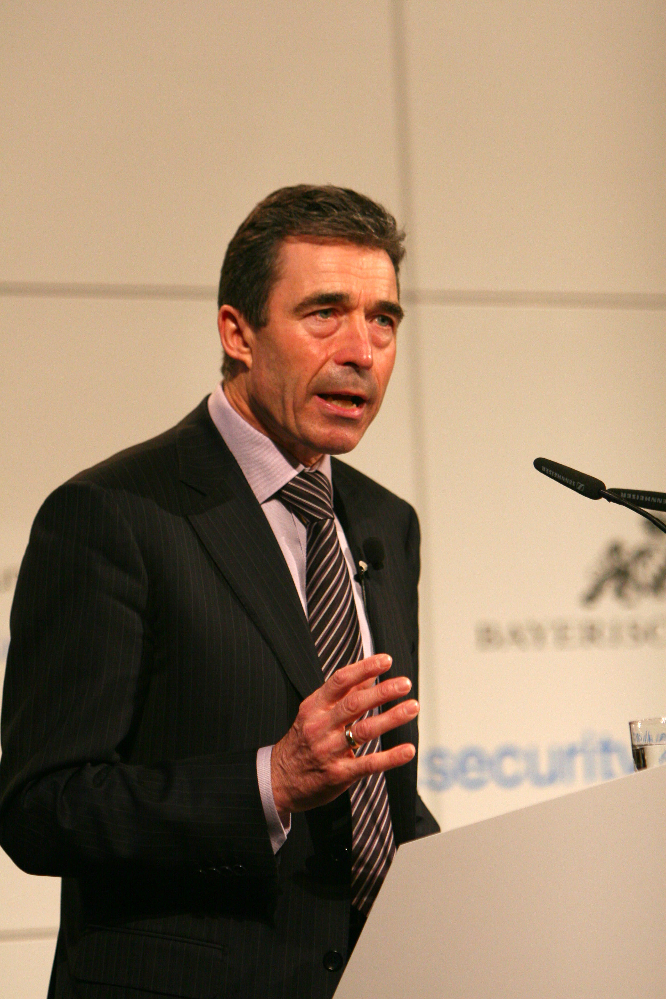 46th Munich Security Conference 2010: Anders Fogh Rasmusen, Secretary General, NATO.